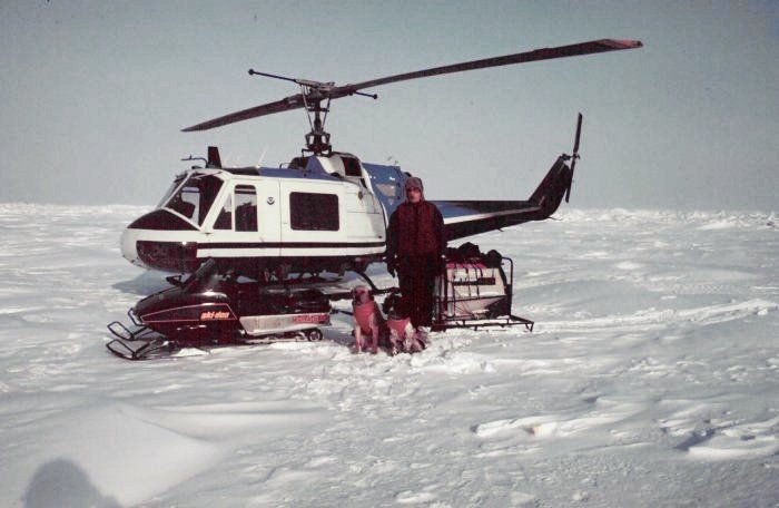 Brendan Kelley, University of Alaska, Fairbanks, conducting seal research on the frozen Beaufort Sea north of Prudhoe. Clyde, the wonder dog, and Henry were used to sniff out seal breathing holes. Note the coats on dogs. It was coldddd!!!!